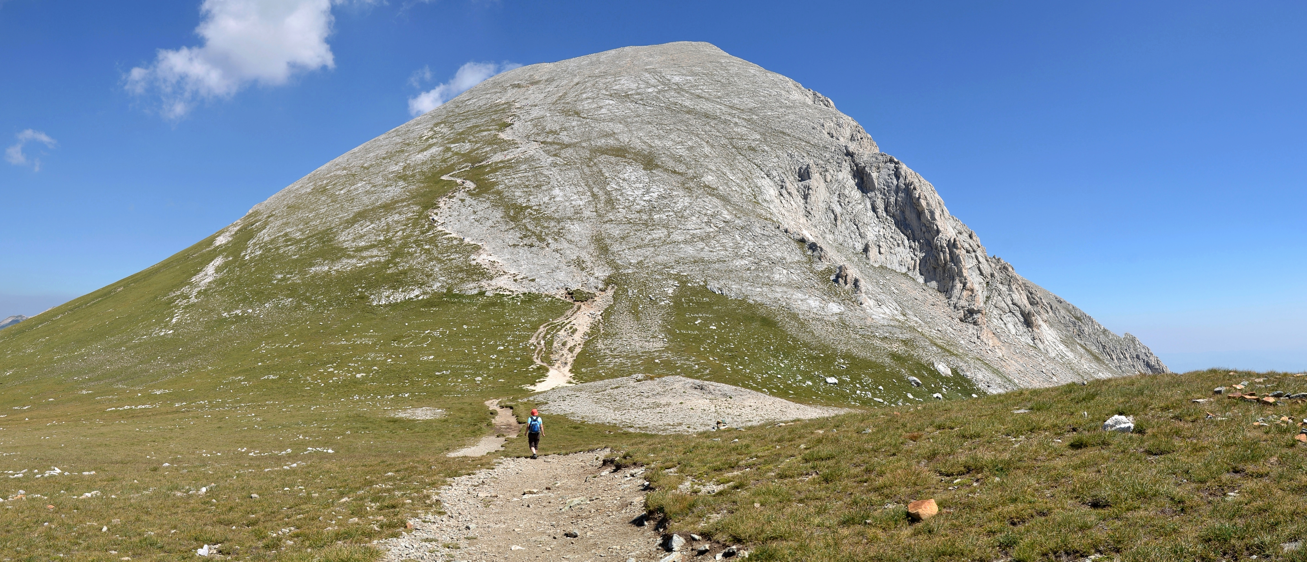 Vihren (Вихрен) from the south, Pirin, Bulgaria